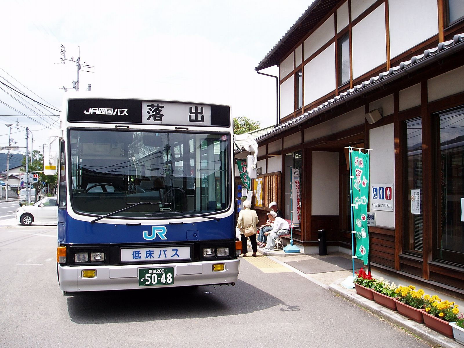 JR Shikoku Bus Kumakogen Sta.